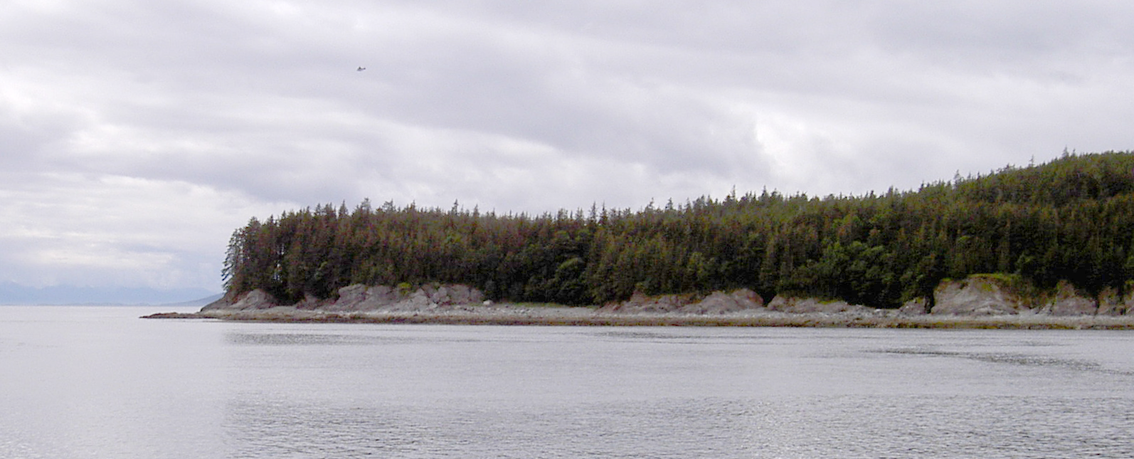 the southern tip of Lincoln Island in Lynn Canal of southeastern Alaska, United States, looking west